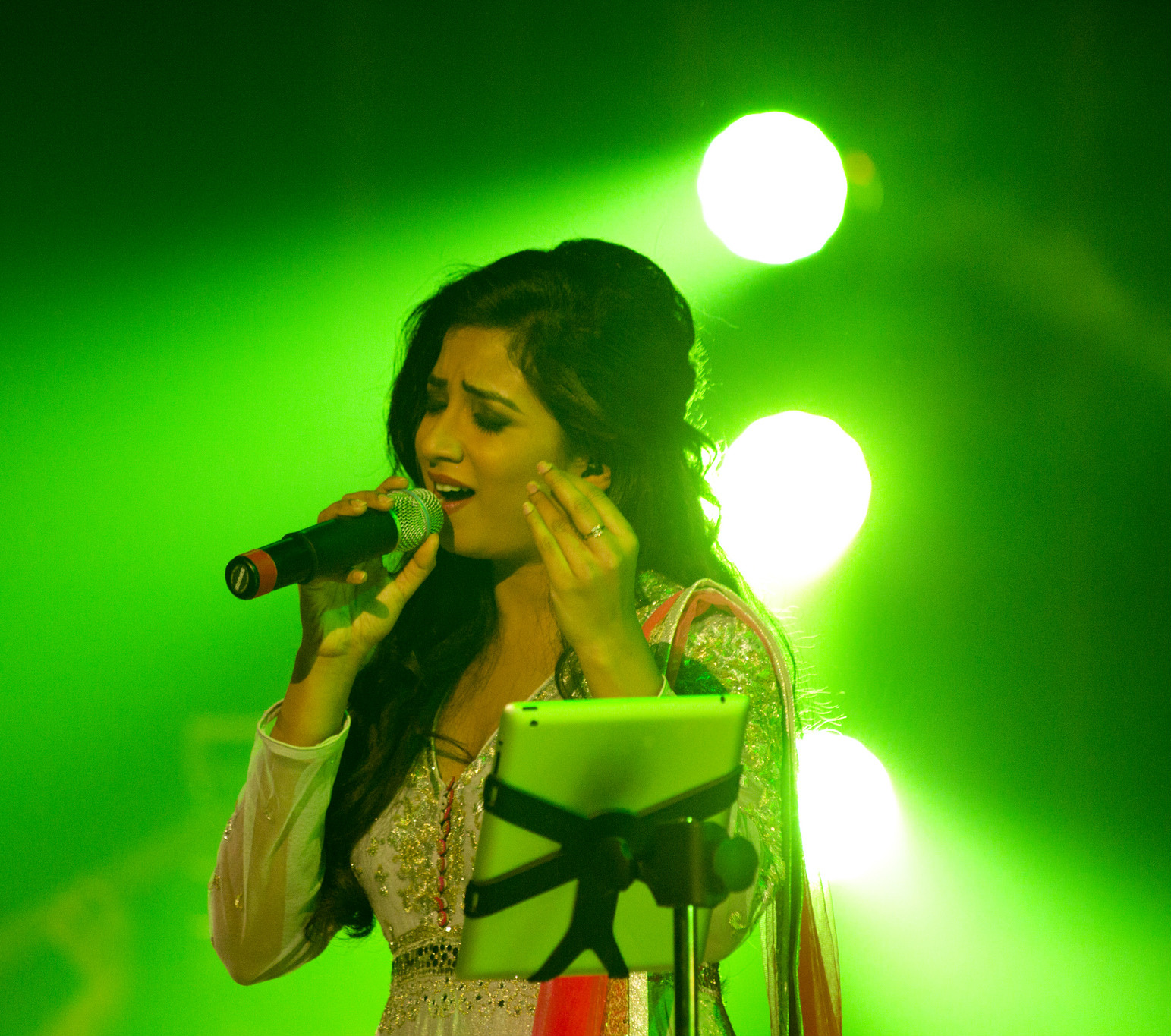 Shreya Ghoshal at a concert.